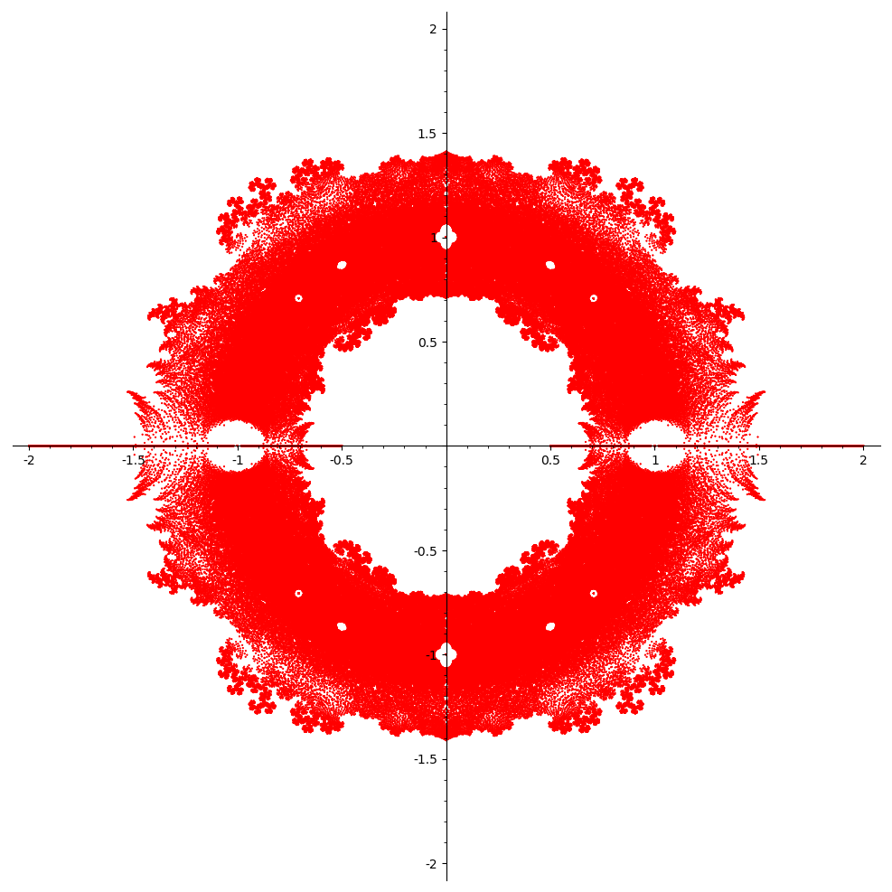 A plot of the roots of all the Littlewood polynomials with degree 15.